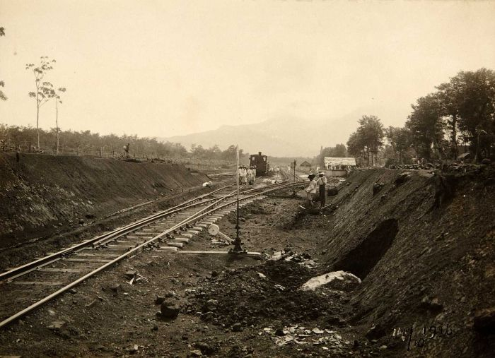 The railway station at Jatinangor under construction